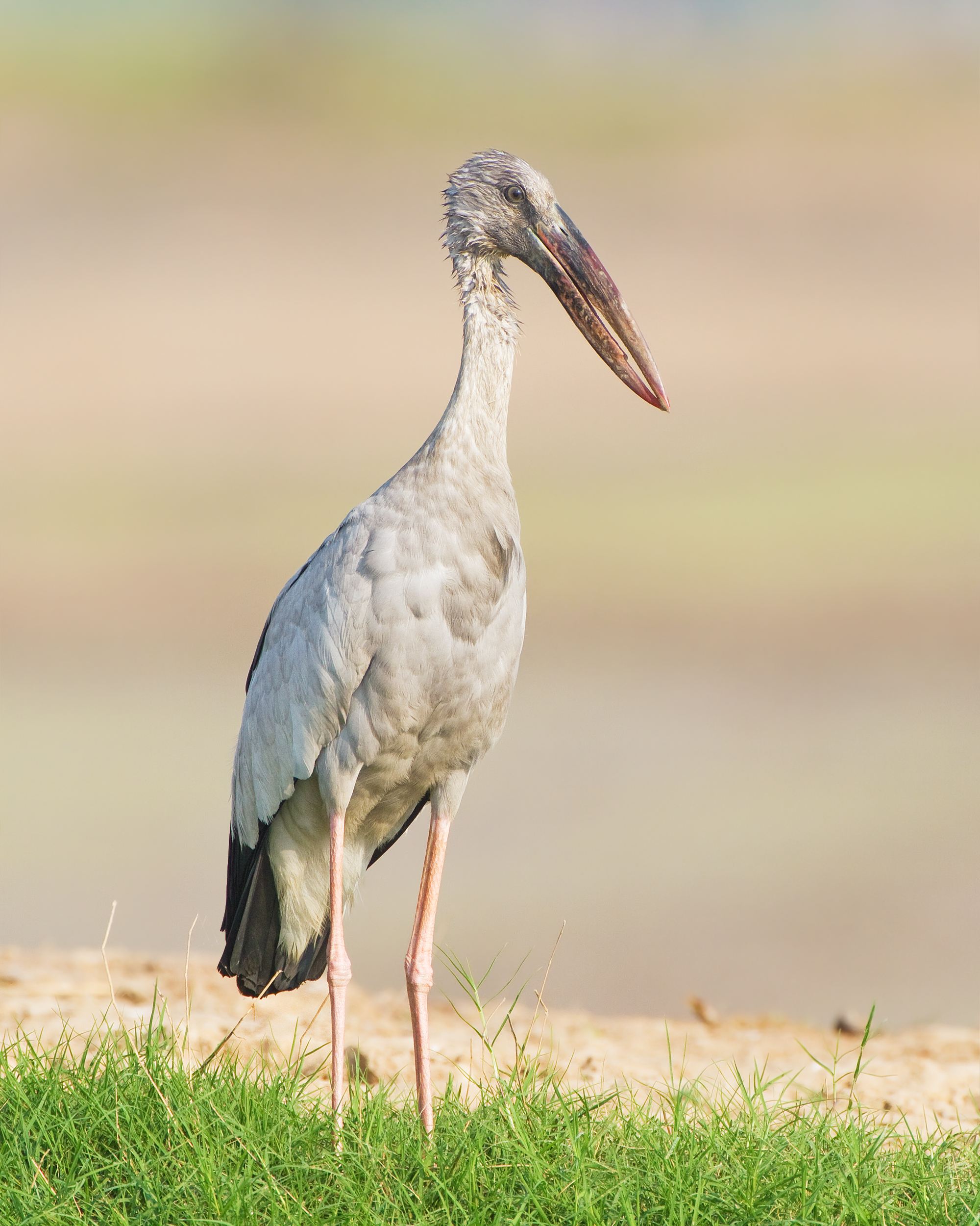 Asian Openbill (Anastomus oscitans), Bueng Boraphet, Phra Non, Nakhon Sawan, Thailand